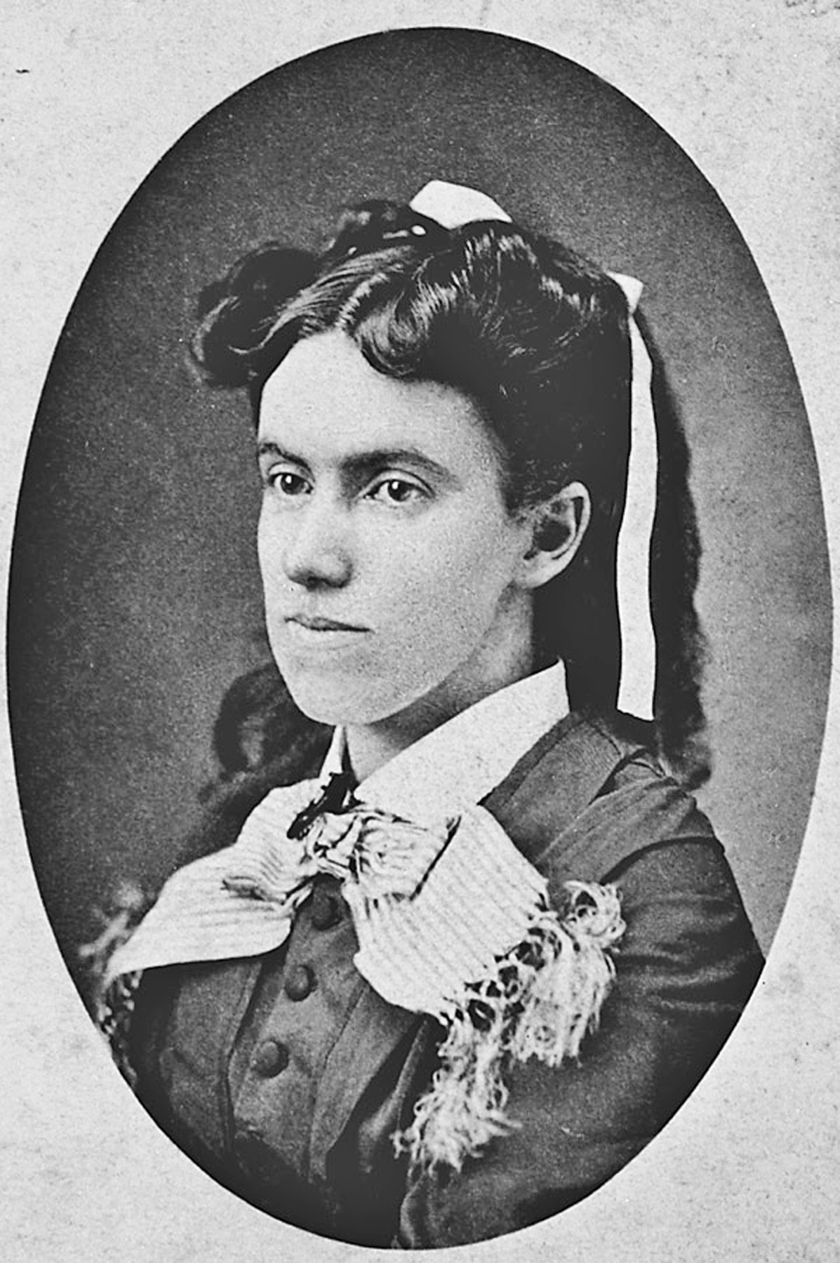 Women's Missionary Union Pamphlet ND